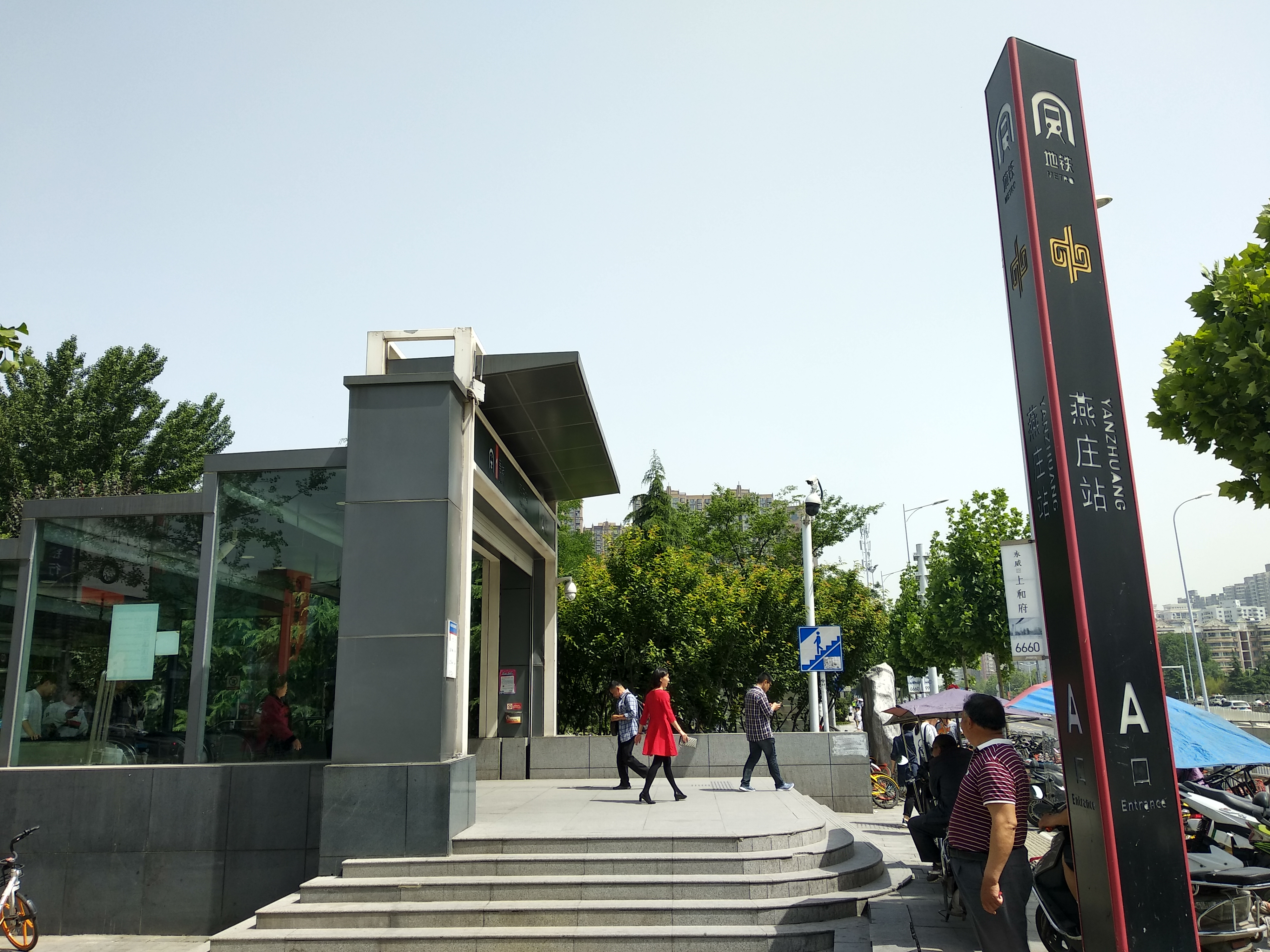 We are now at Yanzhuang Station, an intermediate station on Line 1, Zhengzhou Metro and located in Jinshui District.